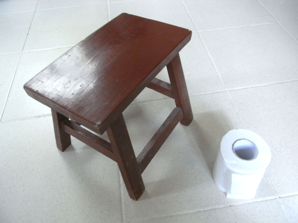 Wooden stools, white toilet paper tissue.